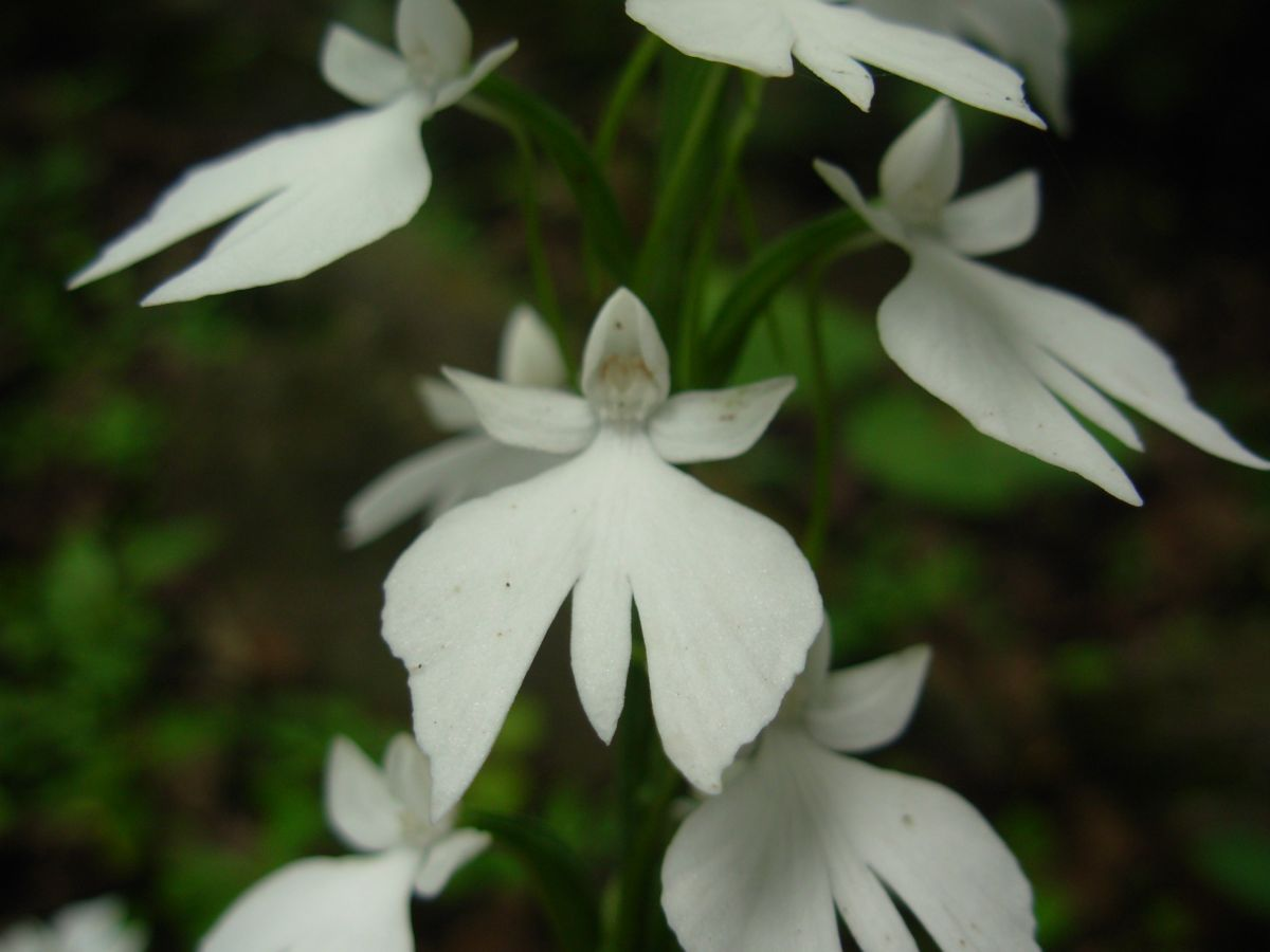 Habenaria plantaginea. Taken in Bankura District of West Bengal. India